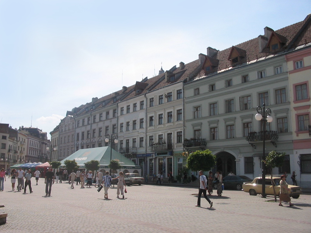 Square, Ivano-Frankivsk, Ukraine